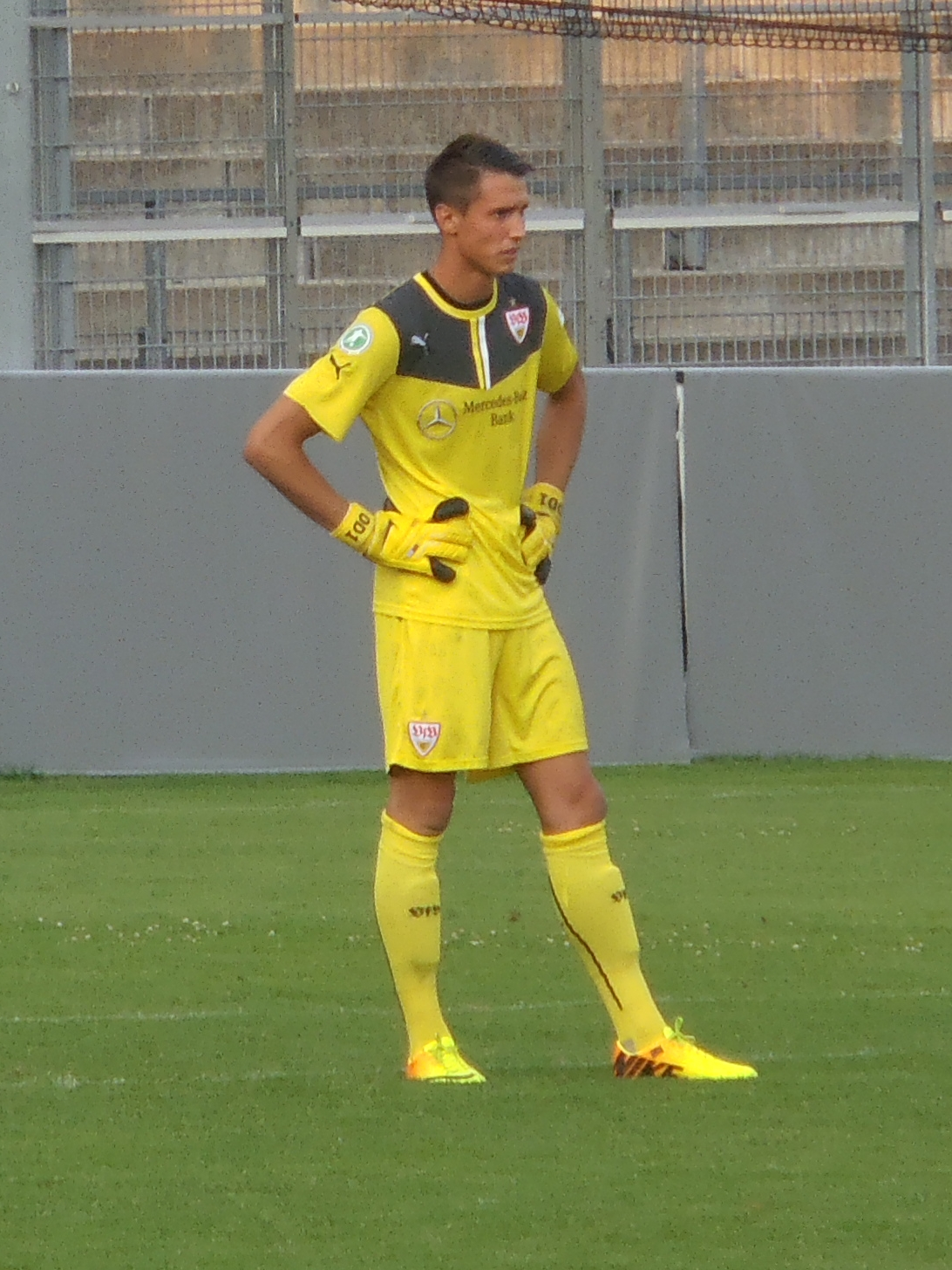 Odisseas Vlachodimos during match of VfB Stuttgart II against SV Darmstadt 98